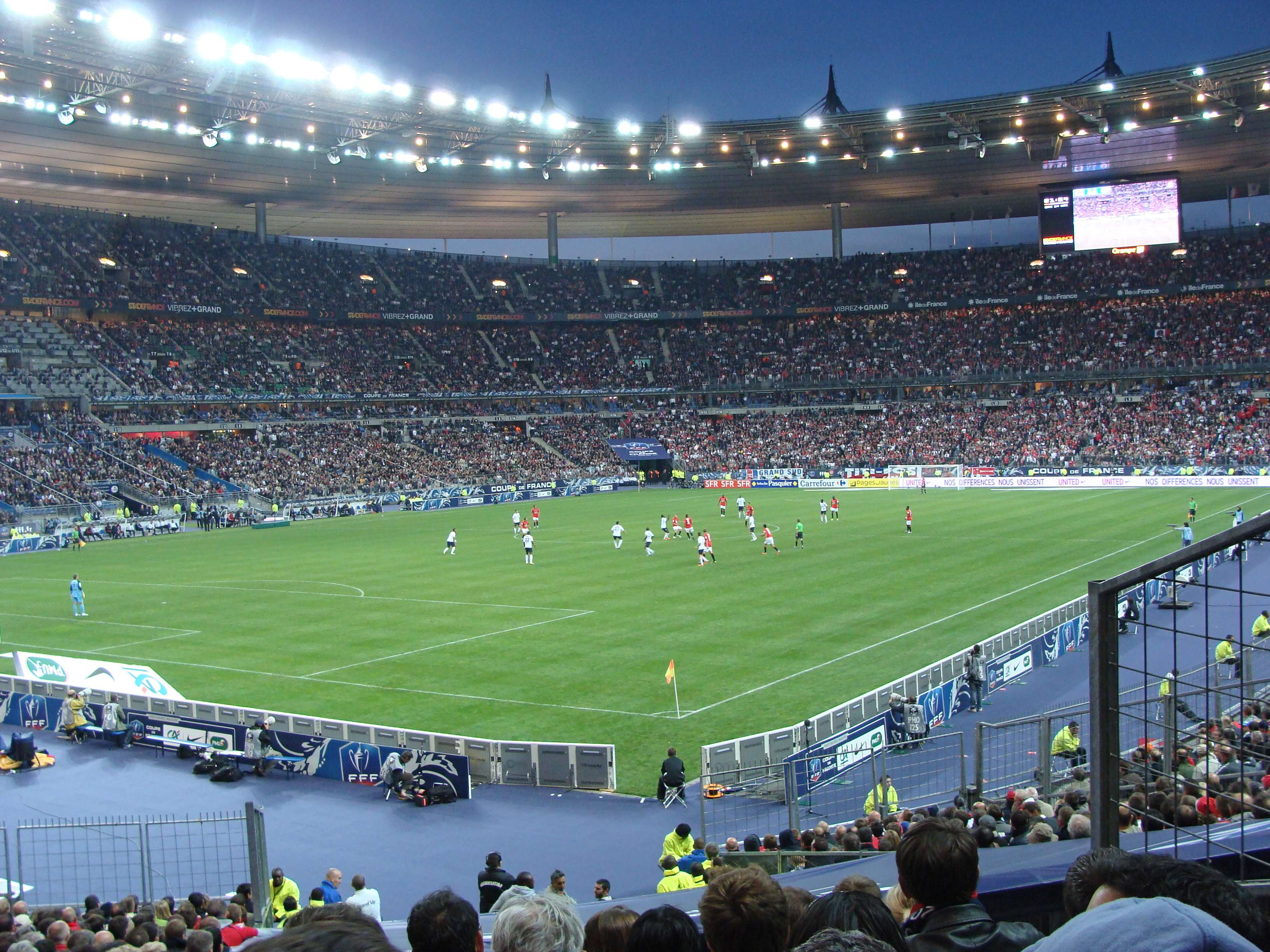 Coupe de France Final 2010-2011 (Lille LOSC vs Paris SG PSG)